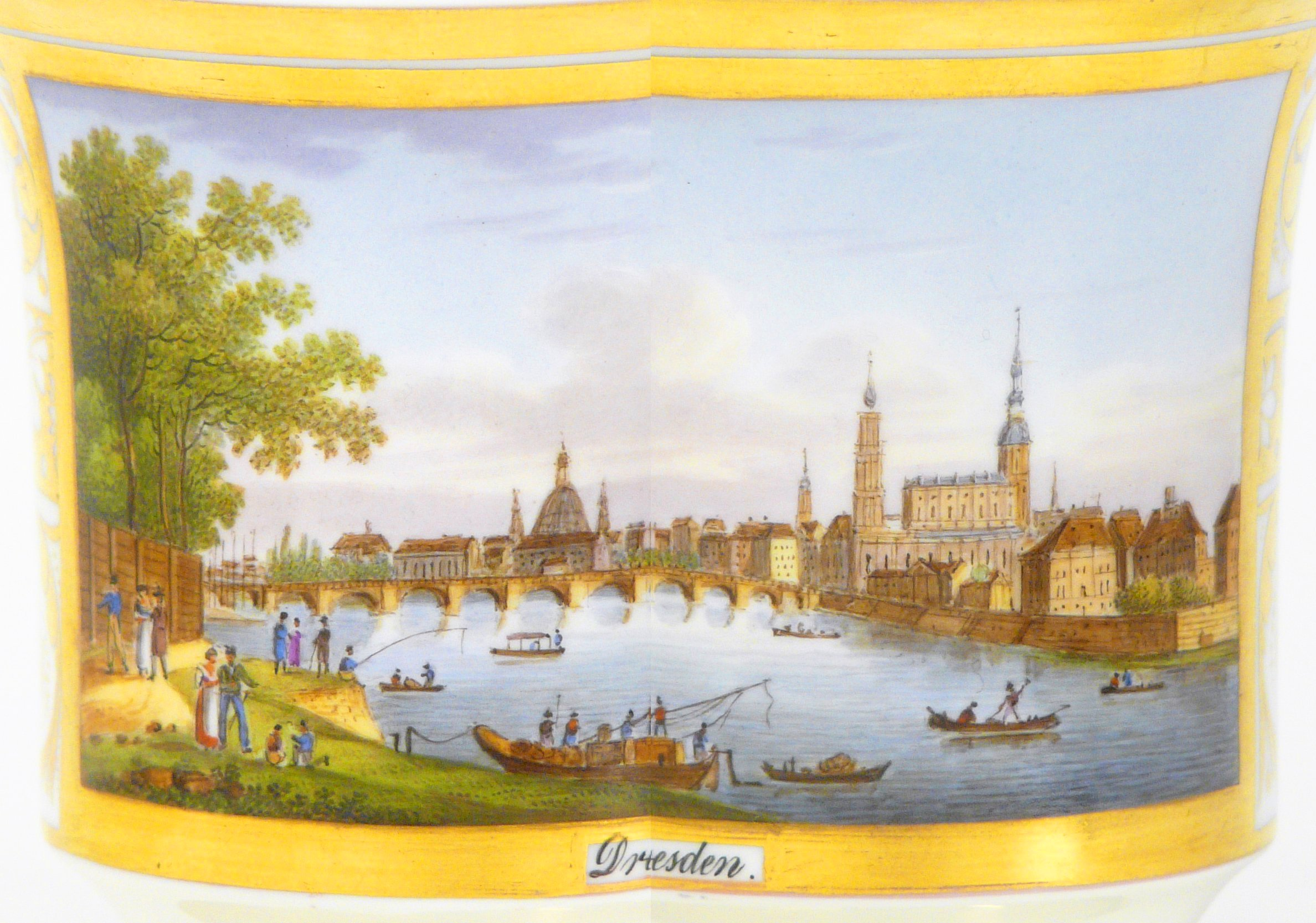 view of Dresden nach after a painting from Canaletto KPM Berlin, around 1830